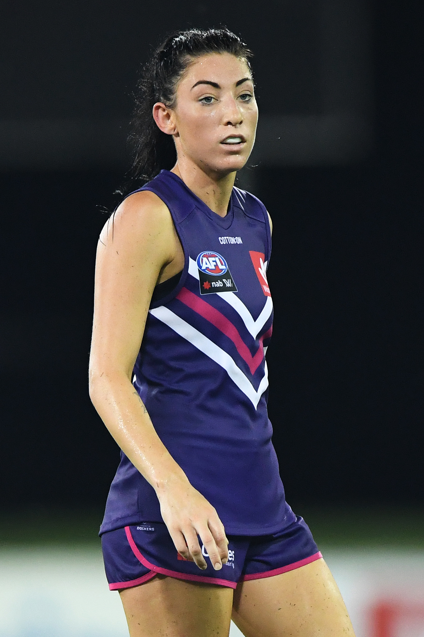 Katie-Jayne Grieve of Fremantle during the 2019 AFL Women's practice match between the Adelaide Football Club and Fremantle Football Club at TIO Stadium on January 19, 2019 in Darwin Australia.